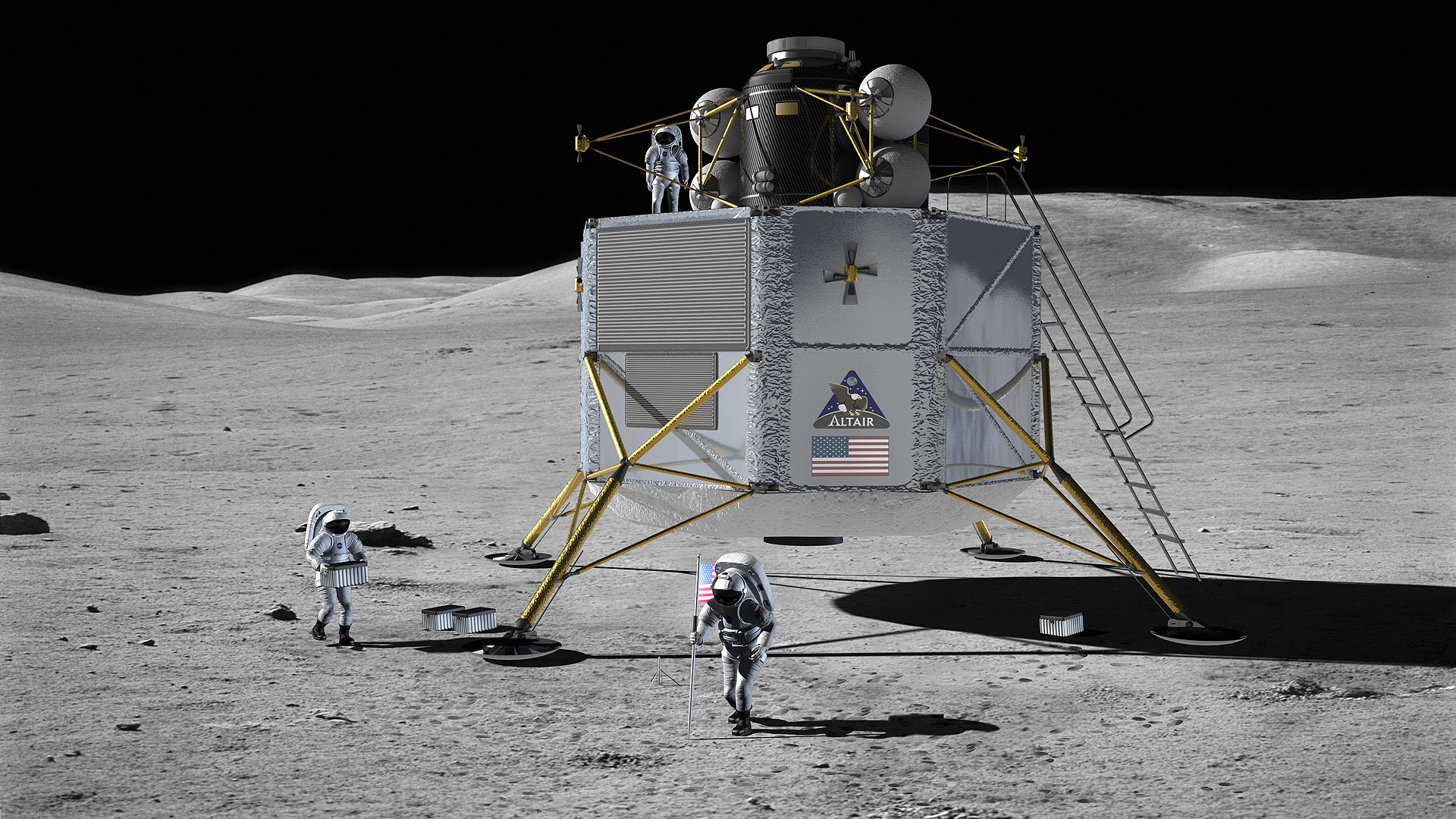 Altair design (Original text: NASA's newest Altair design)